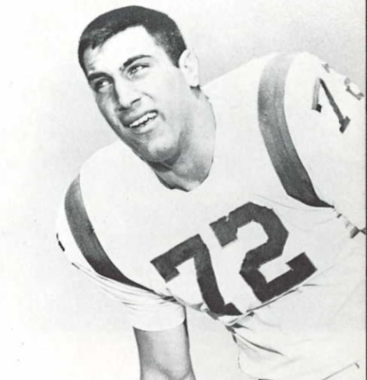 Photograph of Larry Gagner